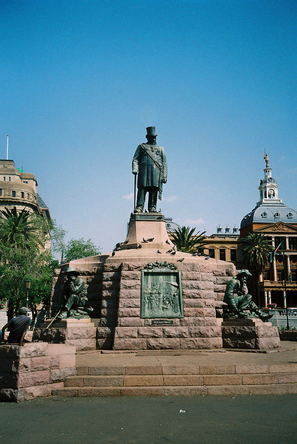 Monument of Paul Kruger in Pretoria